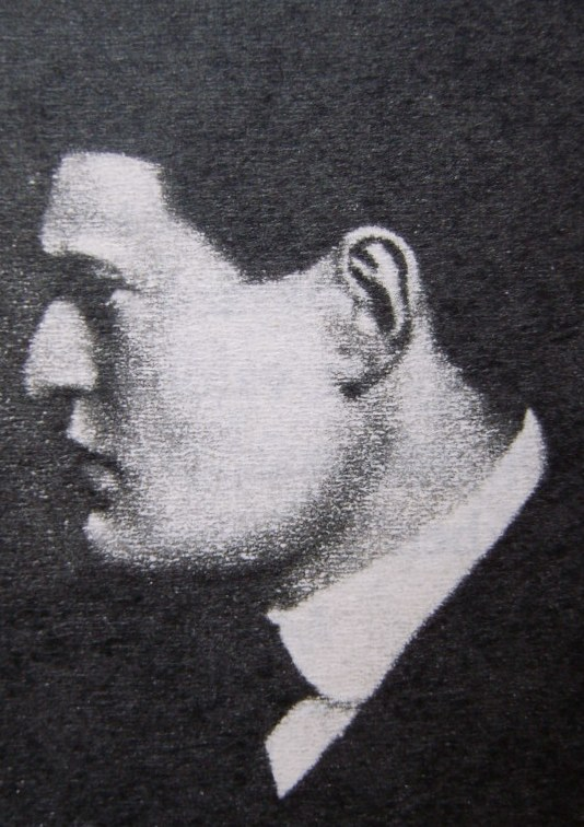 Karinthy Frigyes